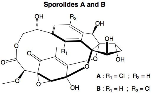 Sporolides A and B